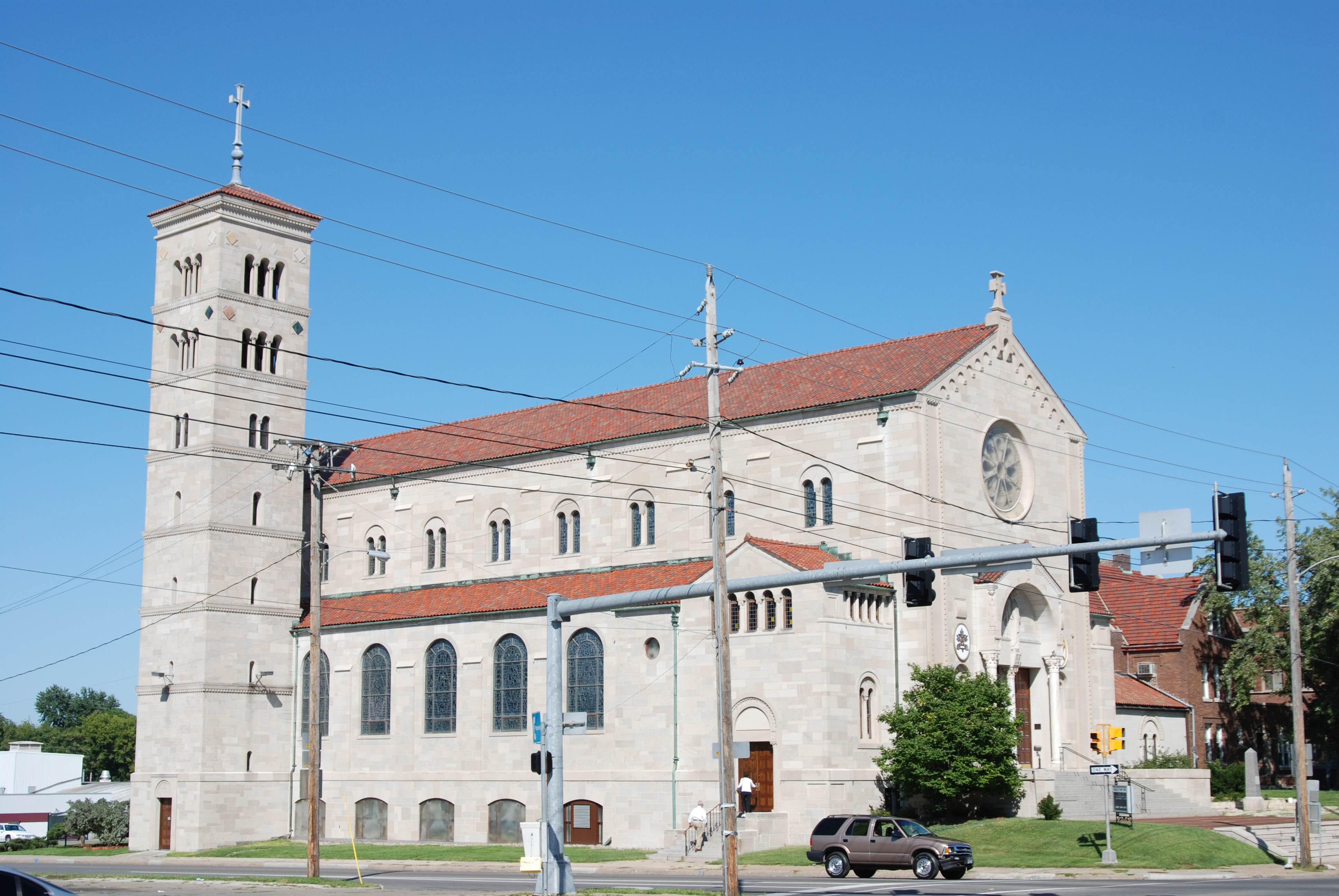 St. John the Apostle Basilica, Des Moines, Iowa